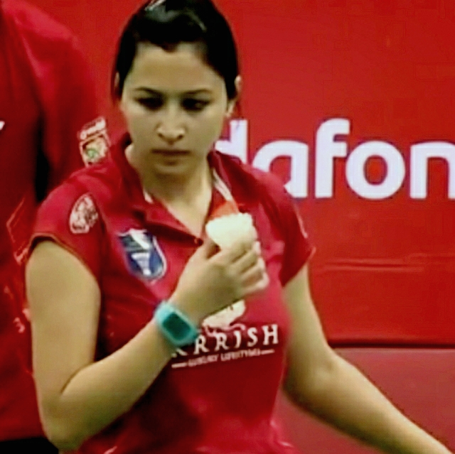 Jwala Gutta during a match at the IBL.